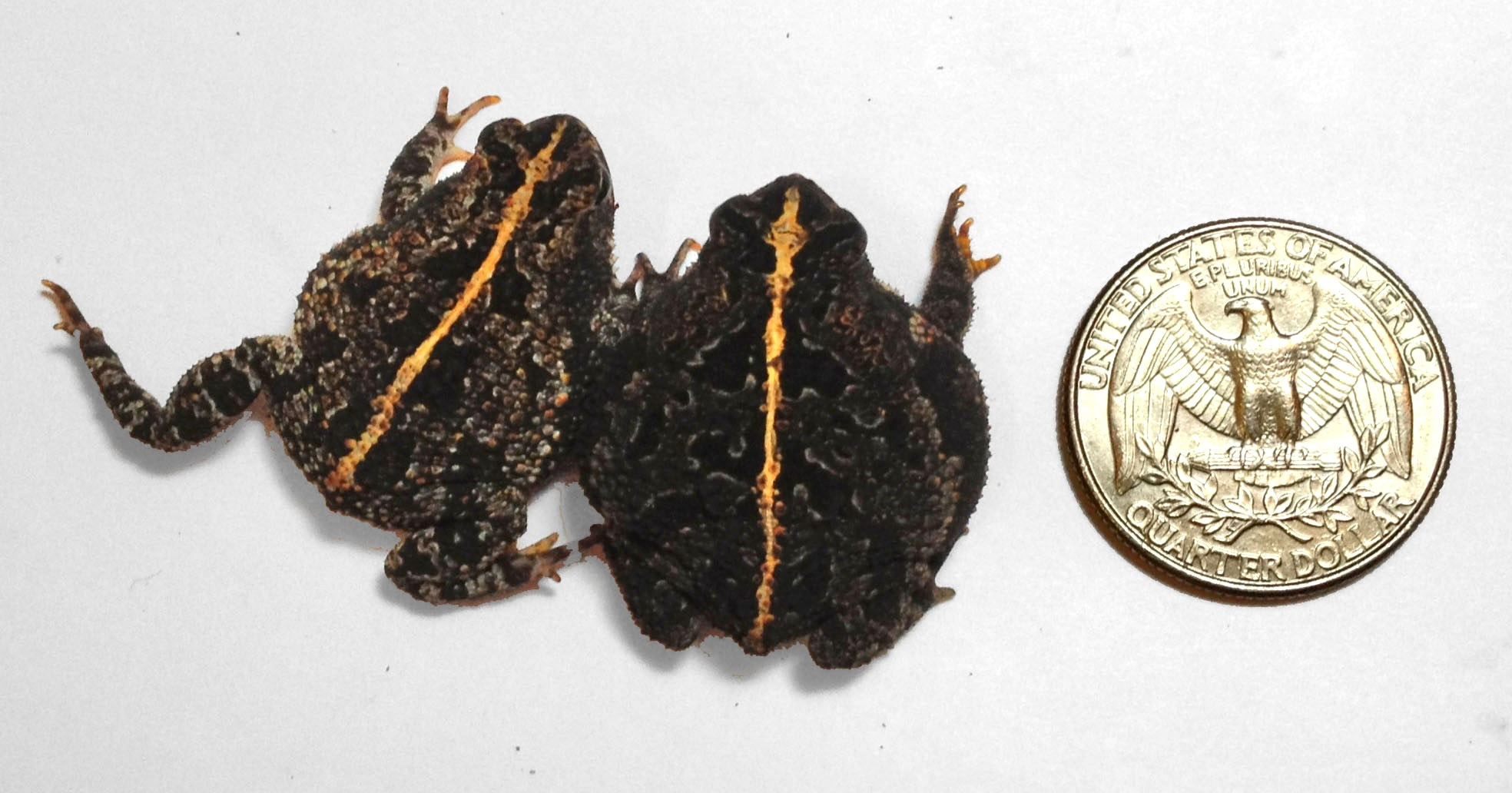 Size comparison of Oak toads to a quarter. Adult male (left) and adult female (right) Oak toads present in photo. Note the male is slightly smaller than the female (sexual dimorphism).